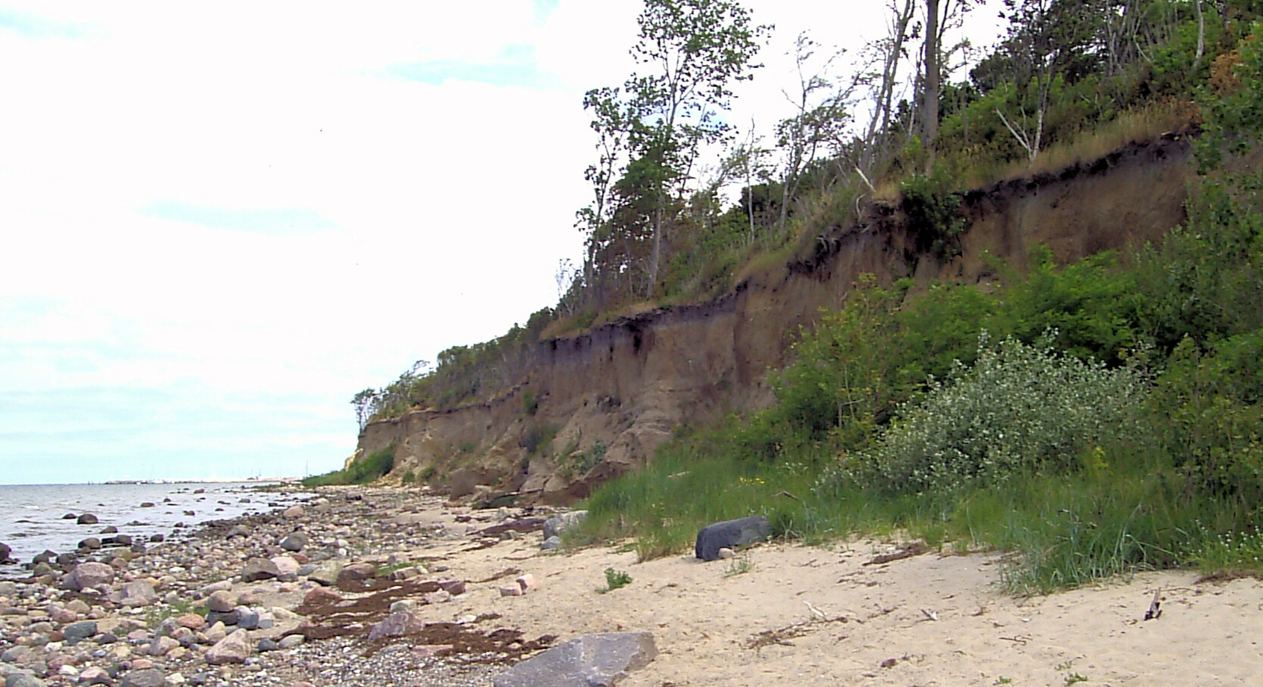 The coast near Timmendorf, Poel Island, Mecklenburg-Vorpommern, Germany